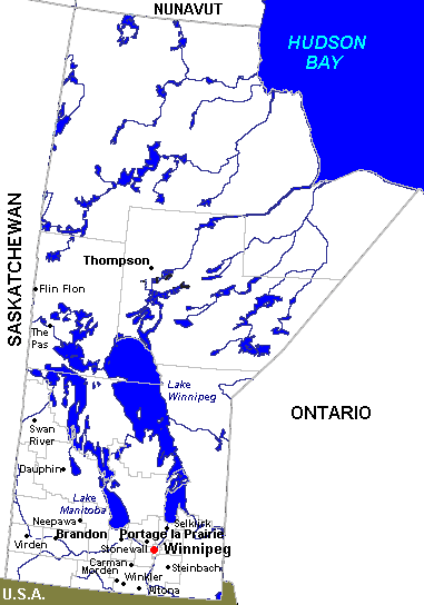 Created by User:Earl Andrew, who released the image to the public domain.